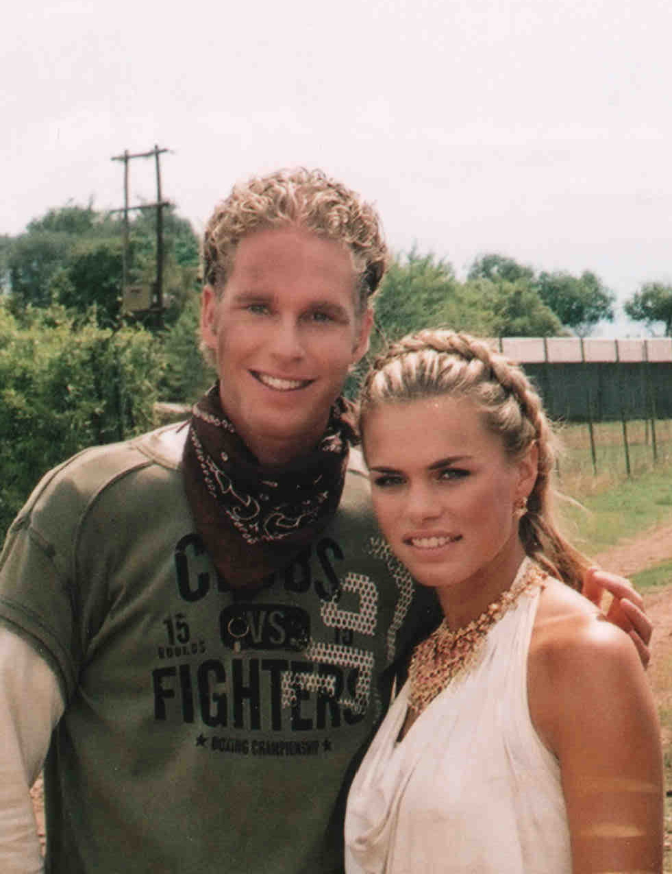 Sander Jan Klerk and Nicolette van Dam as Aaron and Bionda in "ZOOP in Afrika"